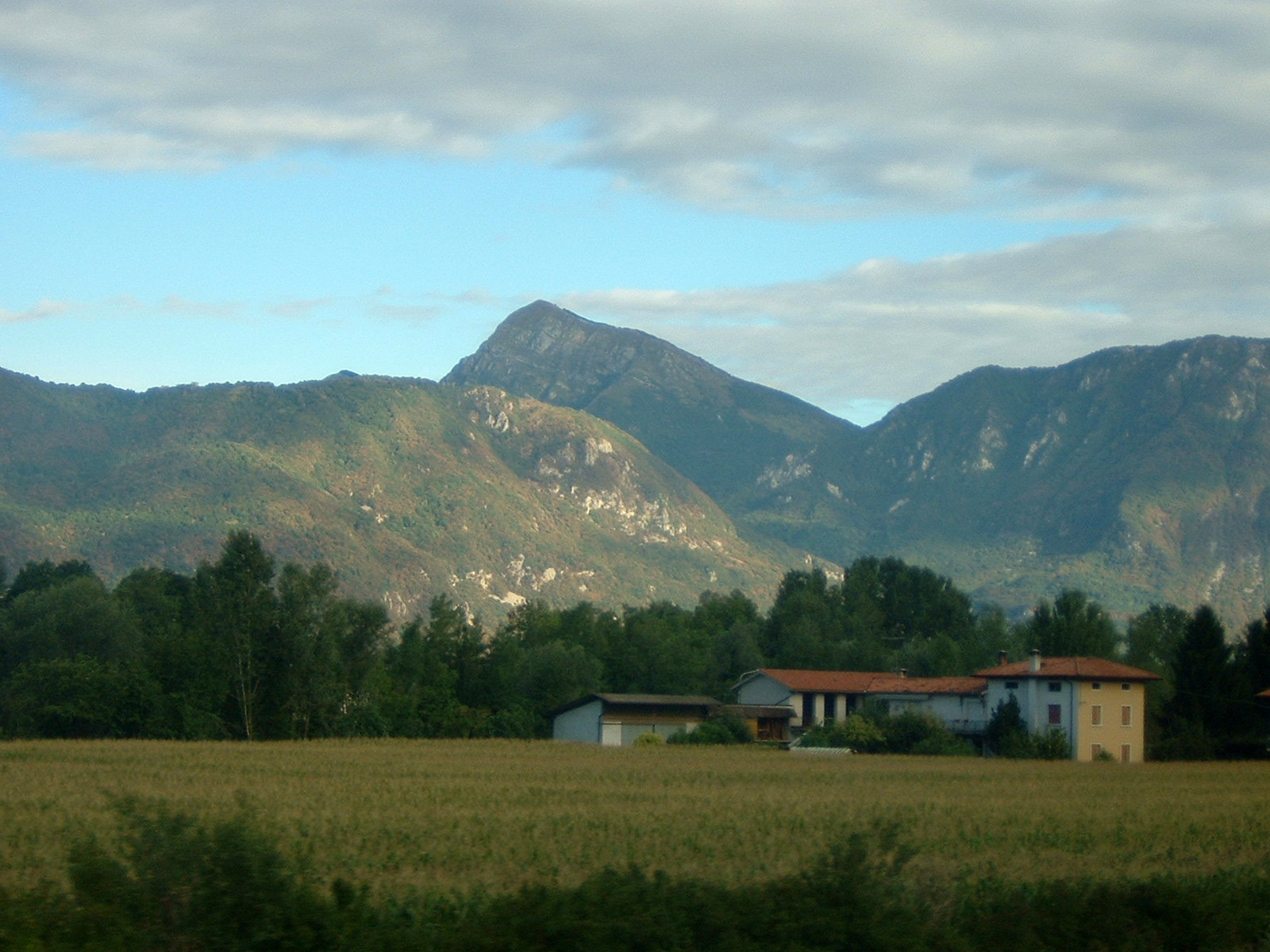 Alps from highway A23 near "Gemona del Friuli"